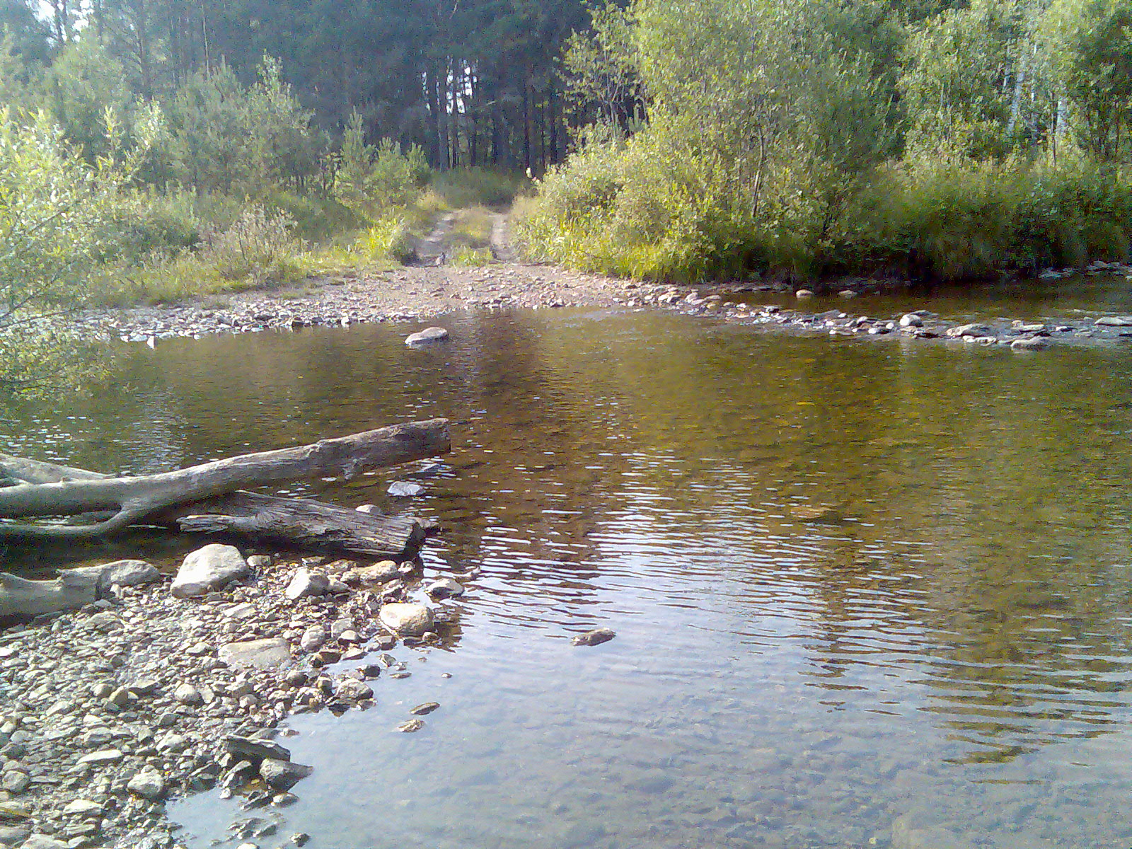 A ford on the Tygyn river in the Bashkortostan, Russia. The road to the village Tyulyuk.